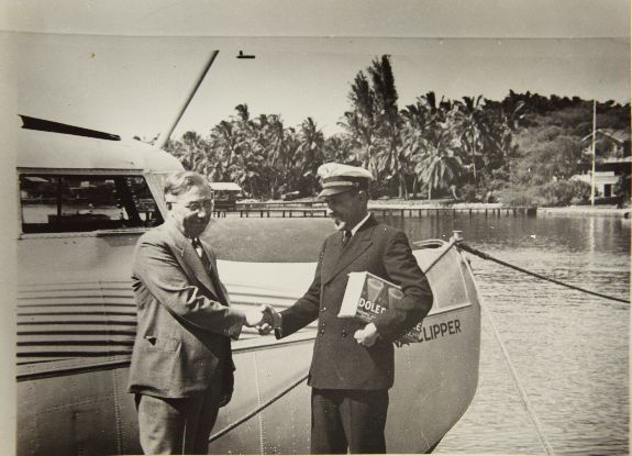 Catalog #: 02-M-00751 Last Name: Musick First Name: CAPT Edwin C Repository: San Diego Air and Space Museum Archive